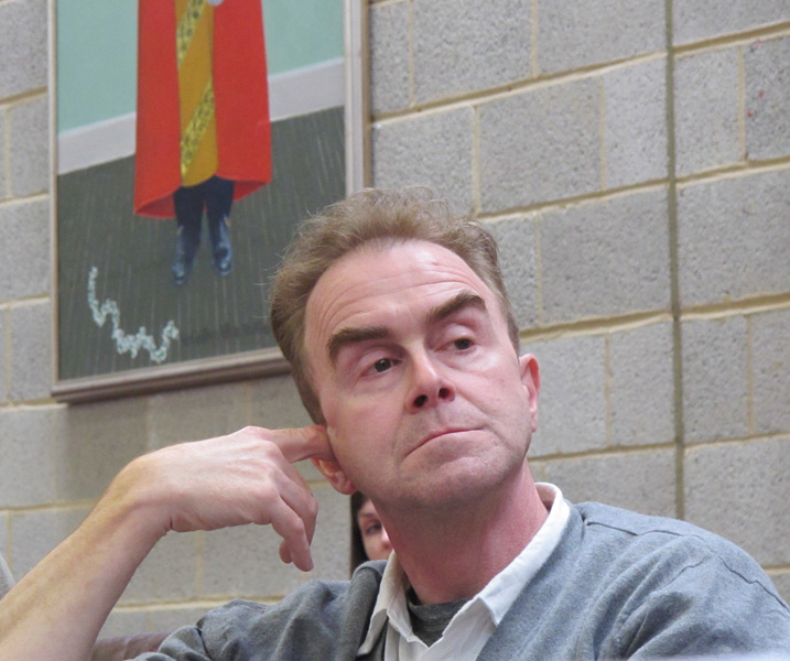 American literary translator Alfred Birnbaum at Worlds Writers Conference held by Writers' Centre Norwich at the University of East Anglia